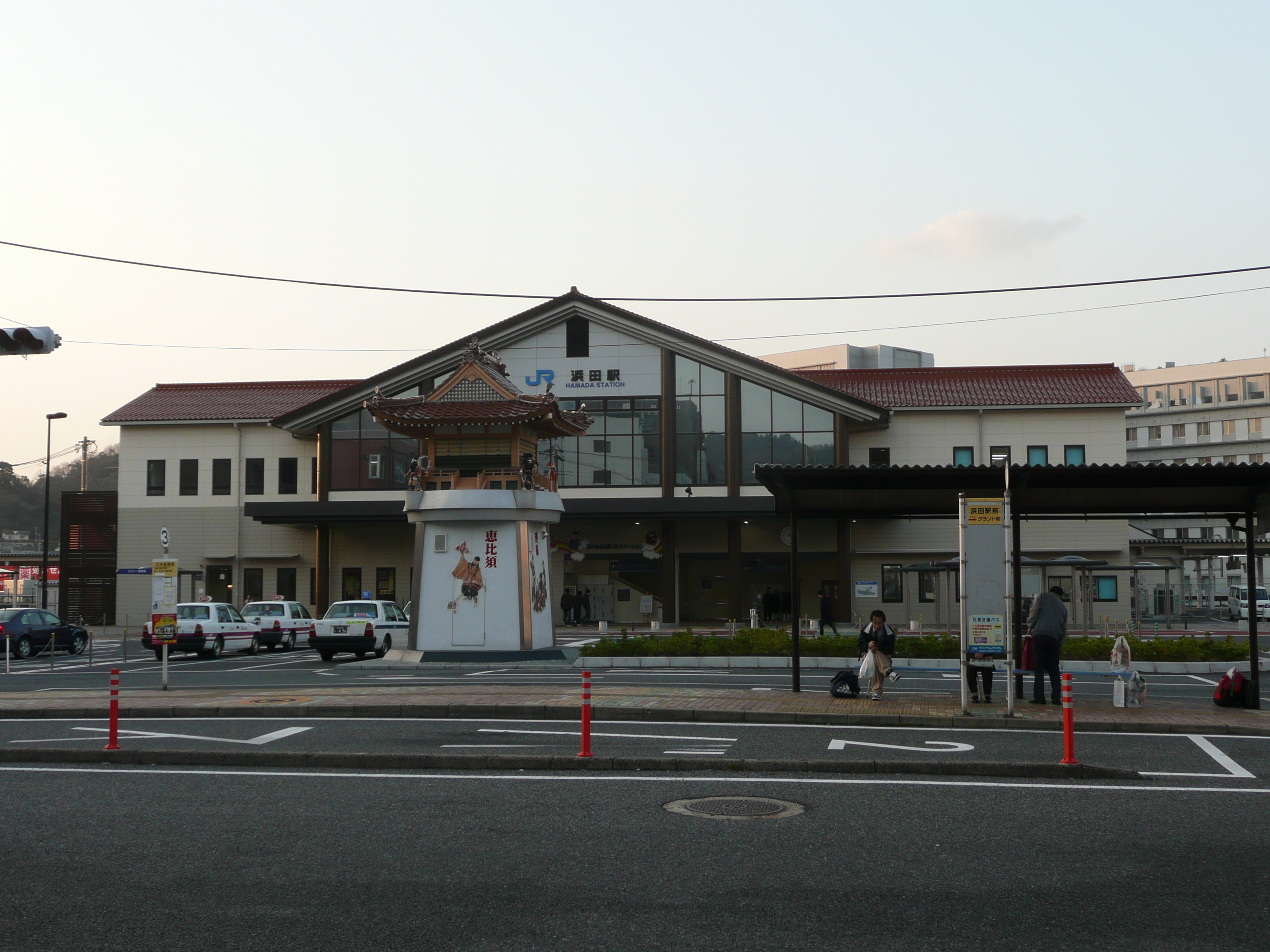 浜田駅舎